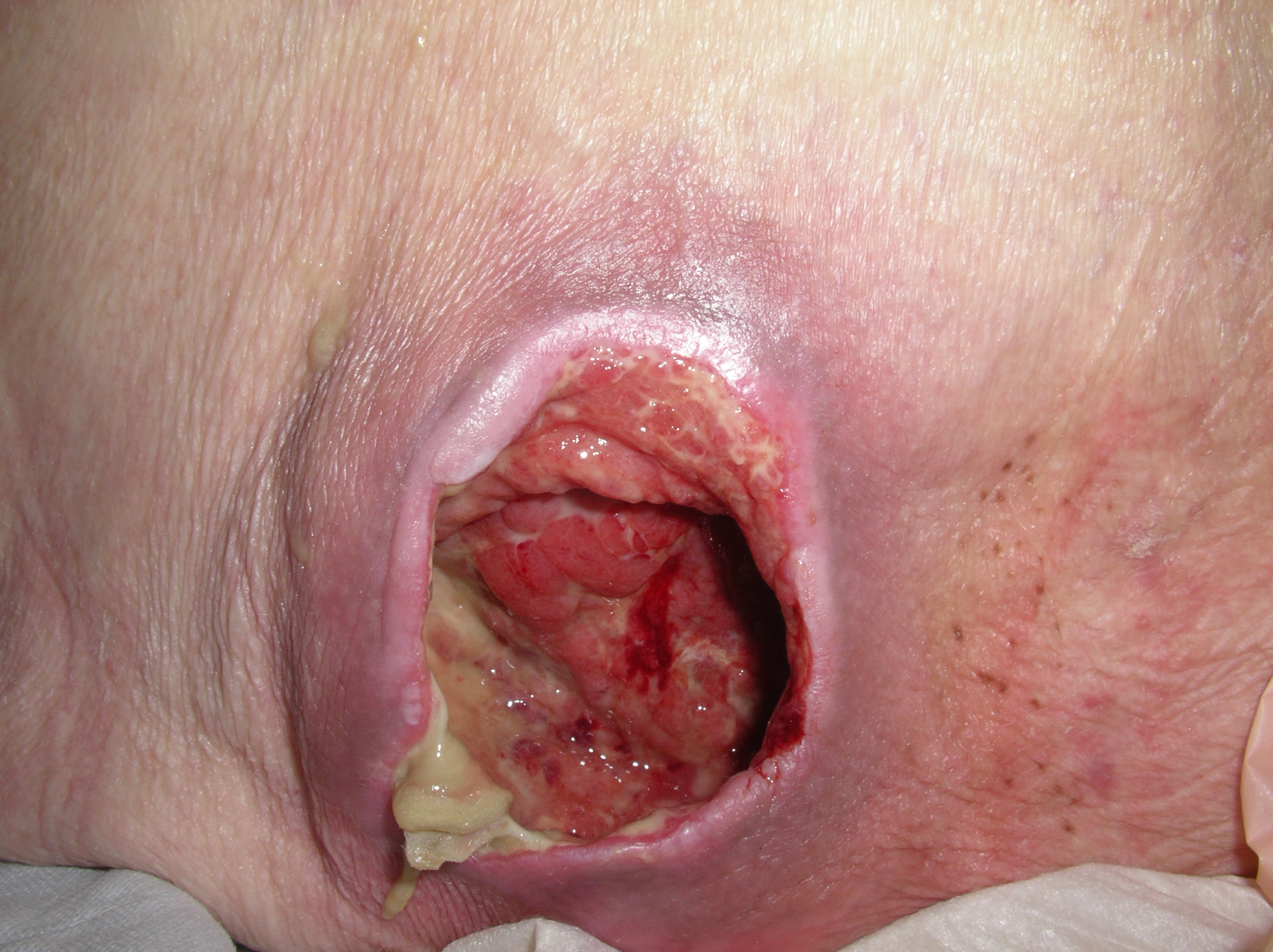 A close up shot of of the same bedsore as Stage4.jpg. It is a little more detailed.